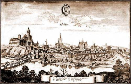 Cieszyn about 1640 – copper engraving of Merian.